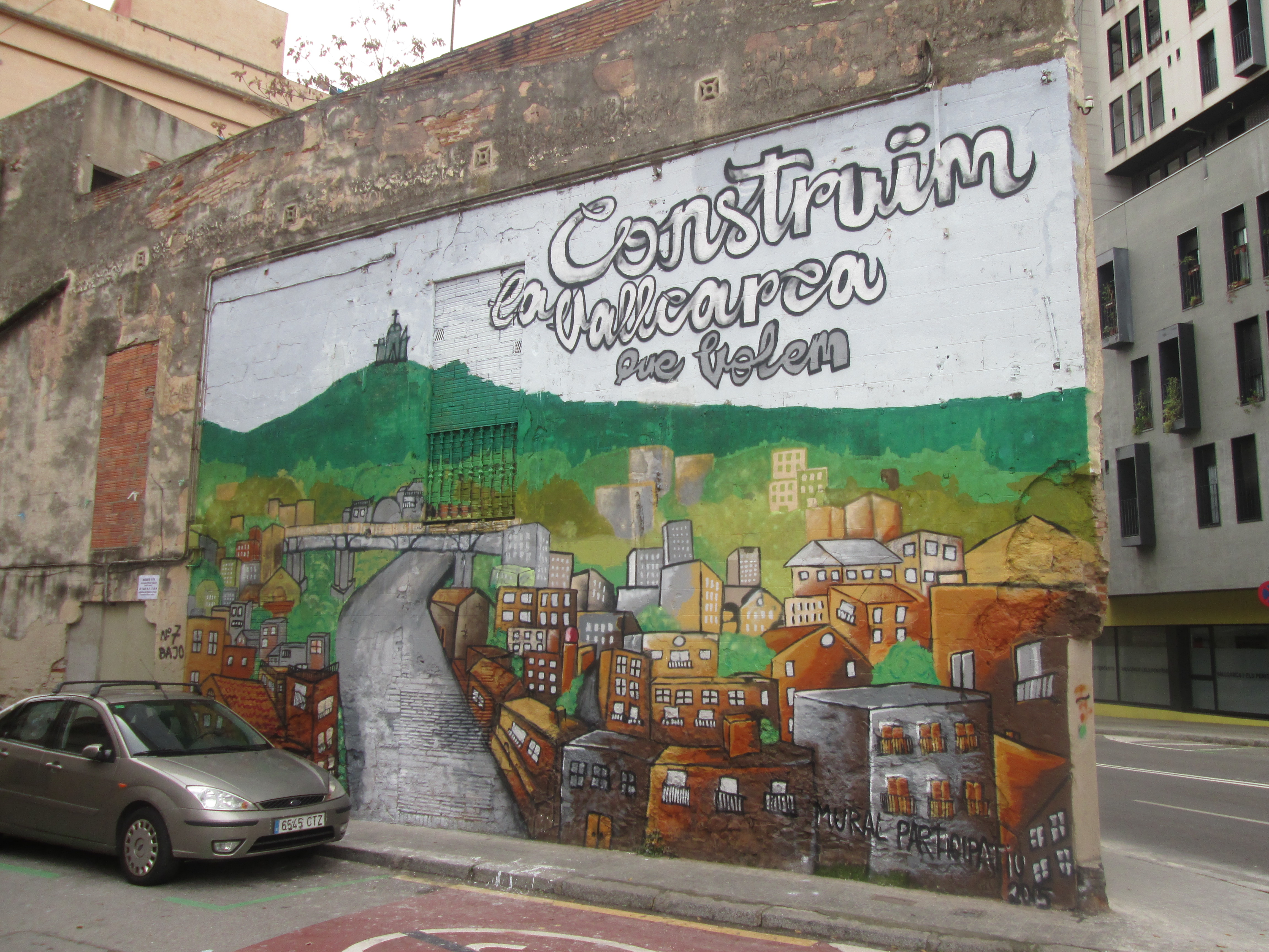 A wall in the disctirct of Gràcia (Barcelona - Spain)